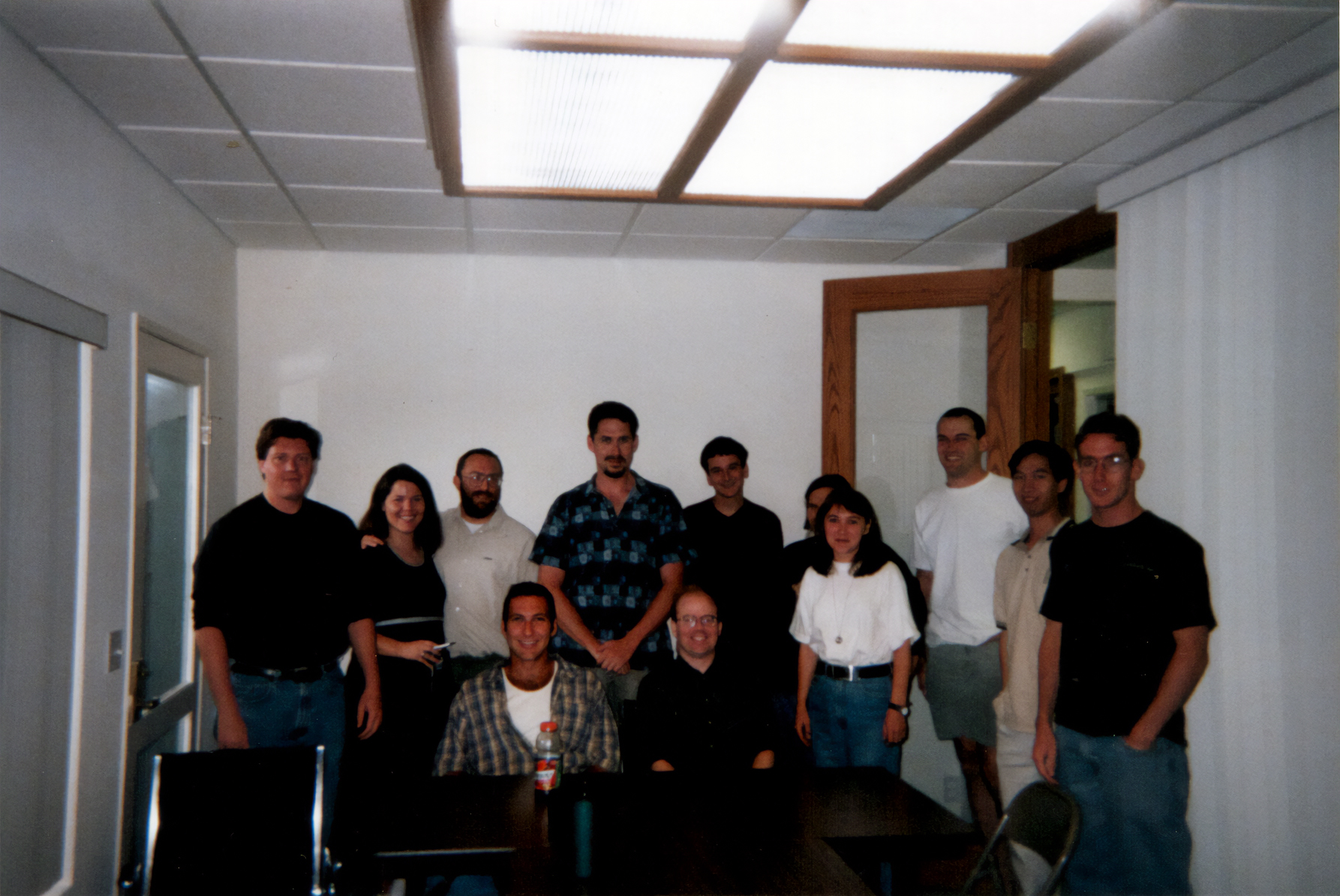 The Bomis staff, summer 2000, sans me (taking the photo). I took this photo in the Loma Portal office on Hancock St., and Christine is pregnant, so this is late summer 2000. Which means Nupedia was a going thing, and Wikipedia would be started a few months later. Standing, left to right: Tim Shell, Christine Wales, Jimmy Wales, Terry Foote, Jared Pappas-Kelley, Liz Campeau, Rita, Jason Richey, Toan Vo, and Andrew McCague. Seated, left to right: Jeremy Rosenfeld, Larry Sanger.